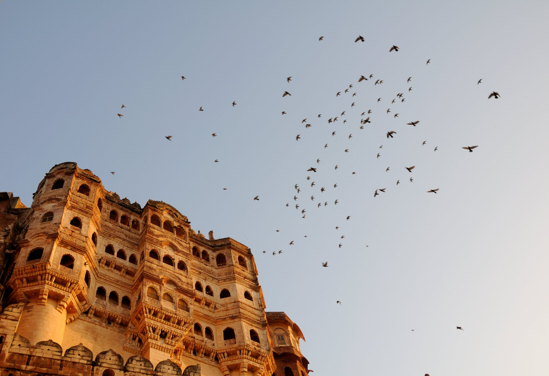 Detail of Mehrangarh Fort in Jodhpur, India